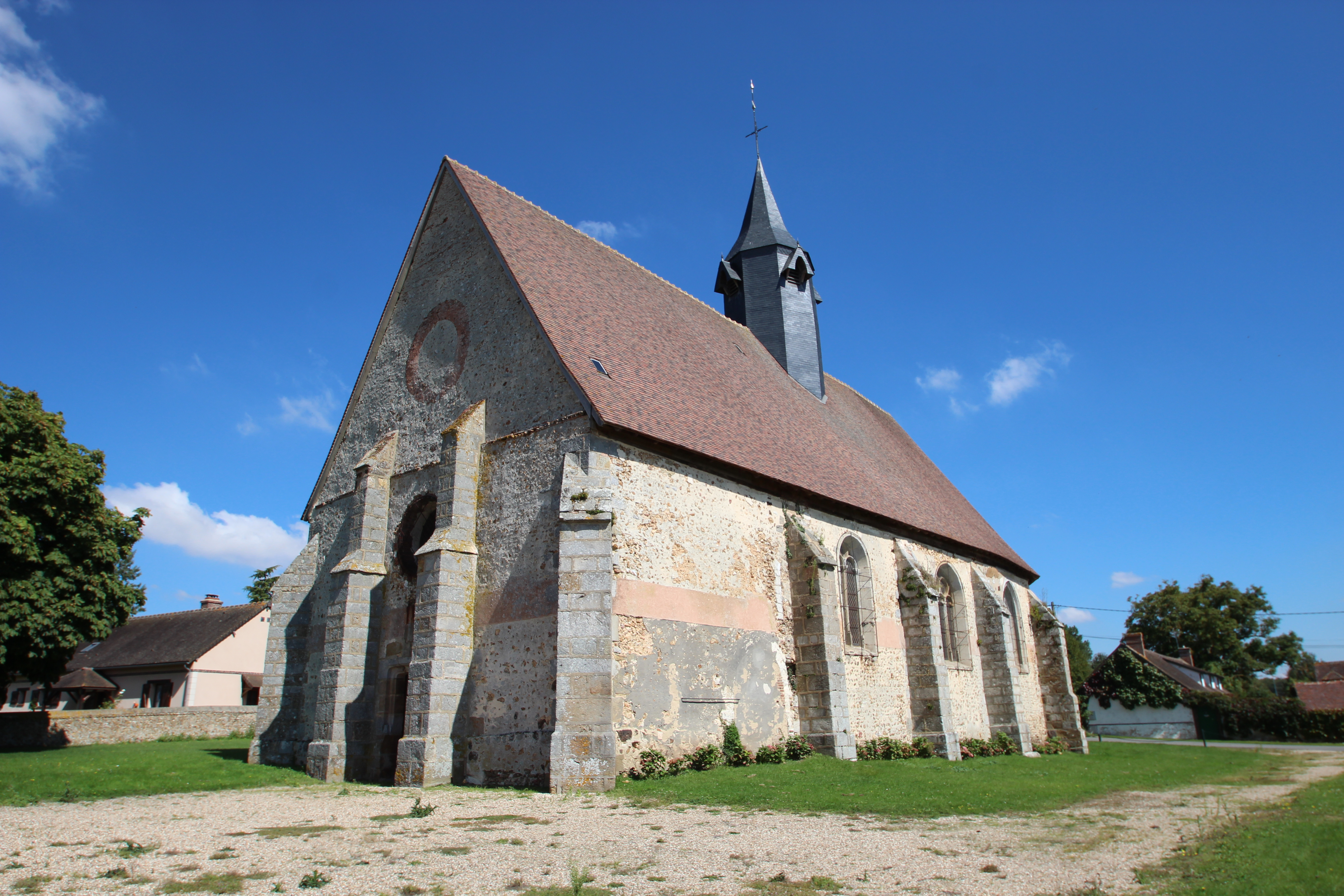 Church of Saulnières, Eure-et-Loir, France. Object location48° 39′ 38.38″ N, 1° 16′ 16.16″ E